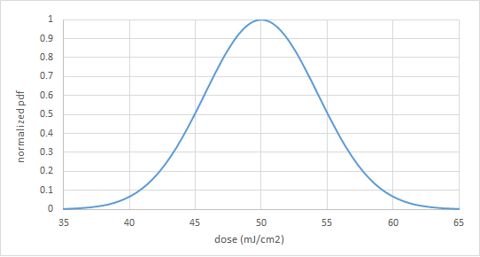 On a local scale, EUV doses fall into a distribution, determined by Poisson statistics. Here the distribution has a mean value of 50 mJ/cm2, with a standard deviation of about 4 mJ/cm2.